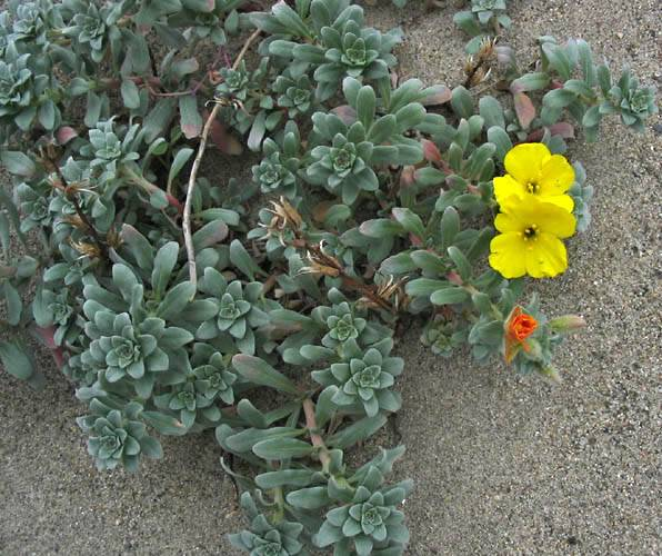 Beach Evening Primrose — Camissonia cheiranthifolia ssp. suffruticosa (formerly Oenothera drummondii) In Point Mugu State Park, at Thornhill Broome beach, Coastal Strand. 6-9-04.